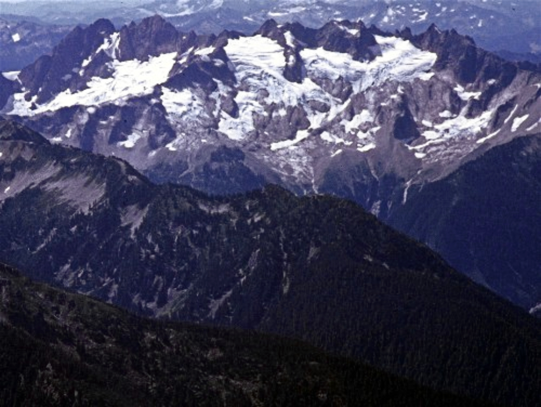 The Buckindy Range seen from Eldorado Peak in 1992. Annotations for peaks and glaciers.